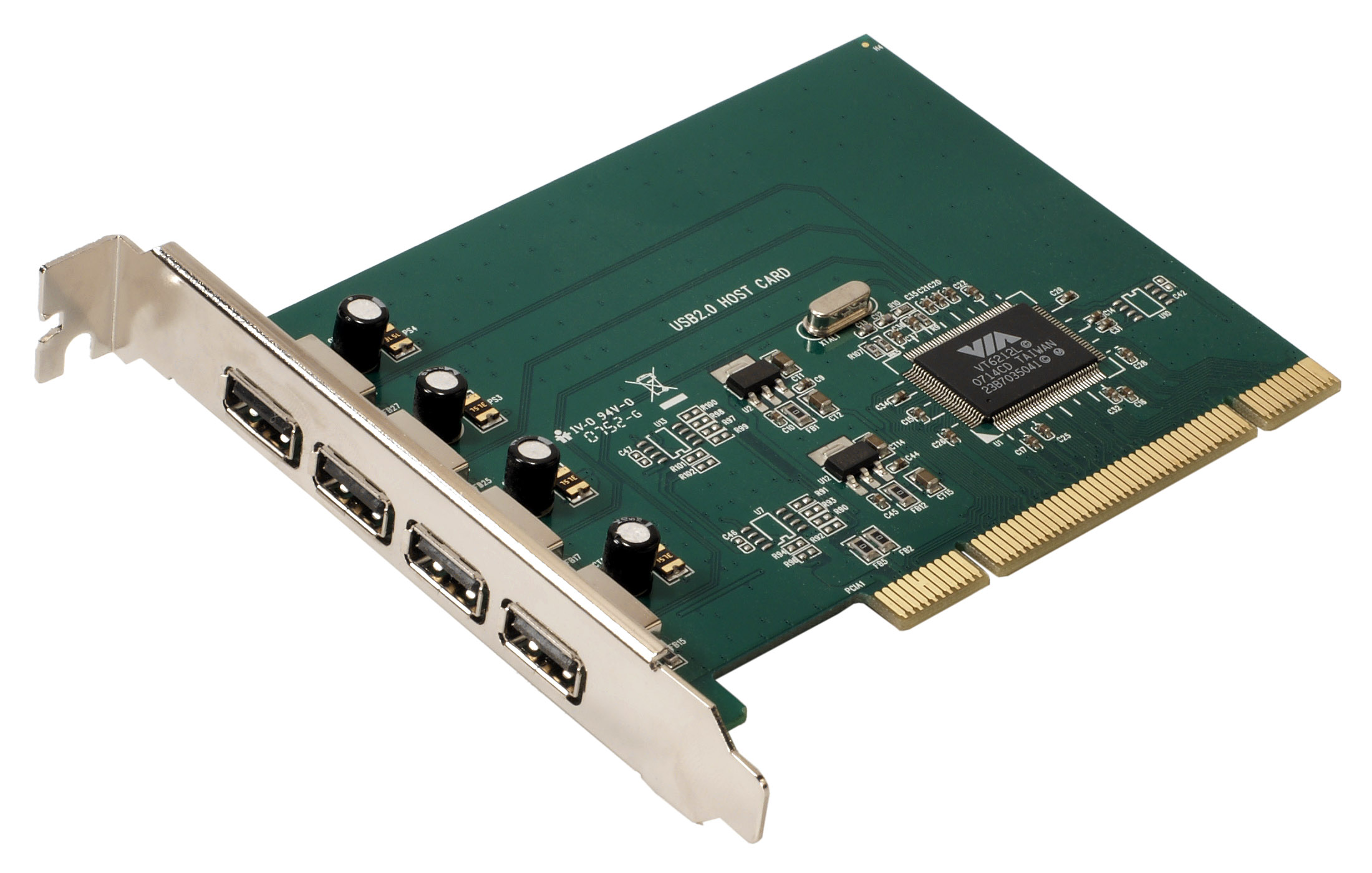 A USB 2.0 host card for a computer with VIA VT6212L chip. It runs off of the PCI bus.